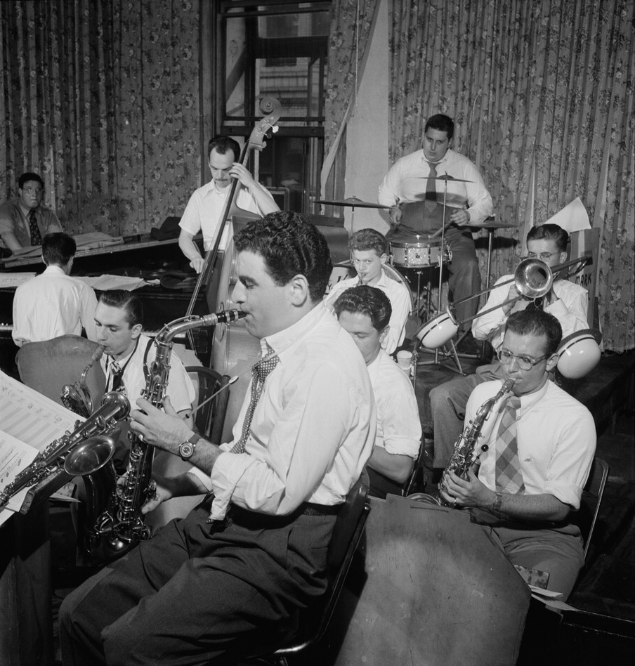 Serge Chaloff, Georgie Auld, Red Rodney, Tiny Kahn - Photography by William P. Gottlieb, NYC, ca. August 1947.